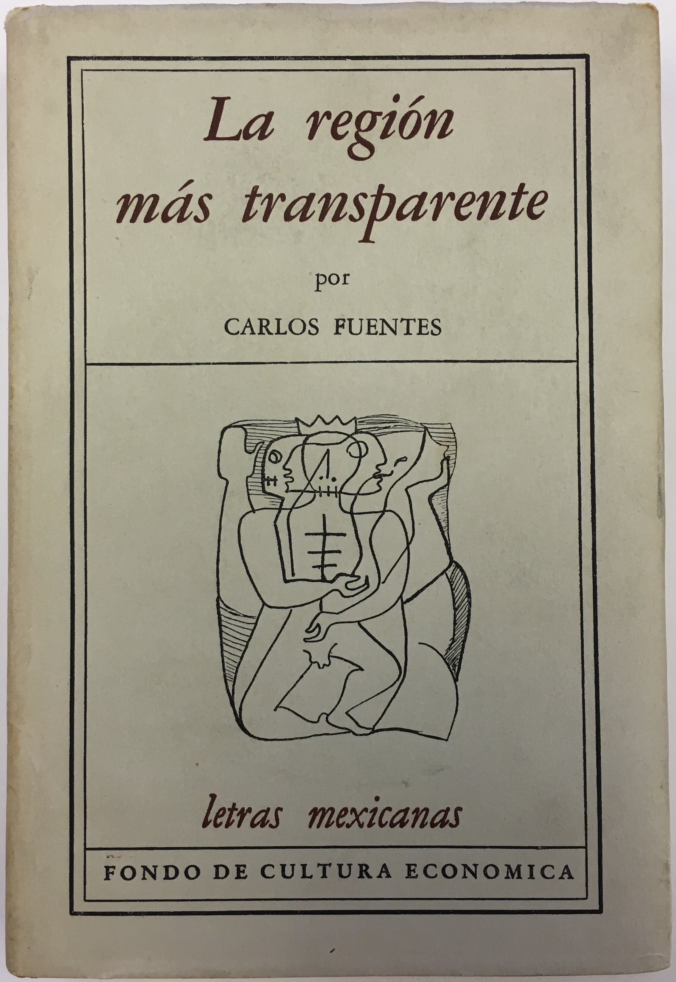 The Cover of the first Mexican edition.